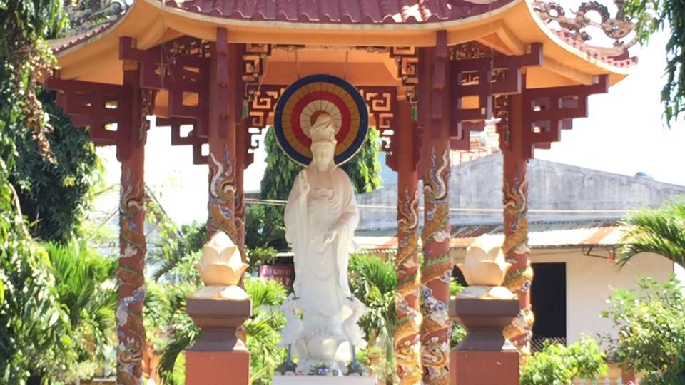 shrine